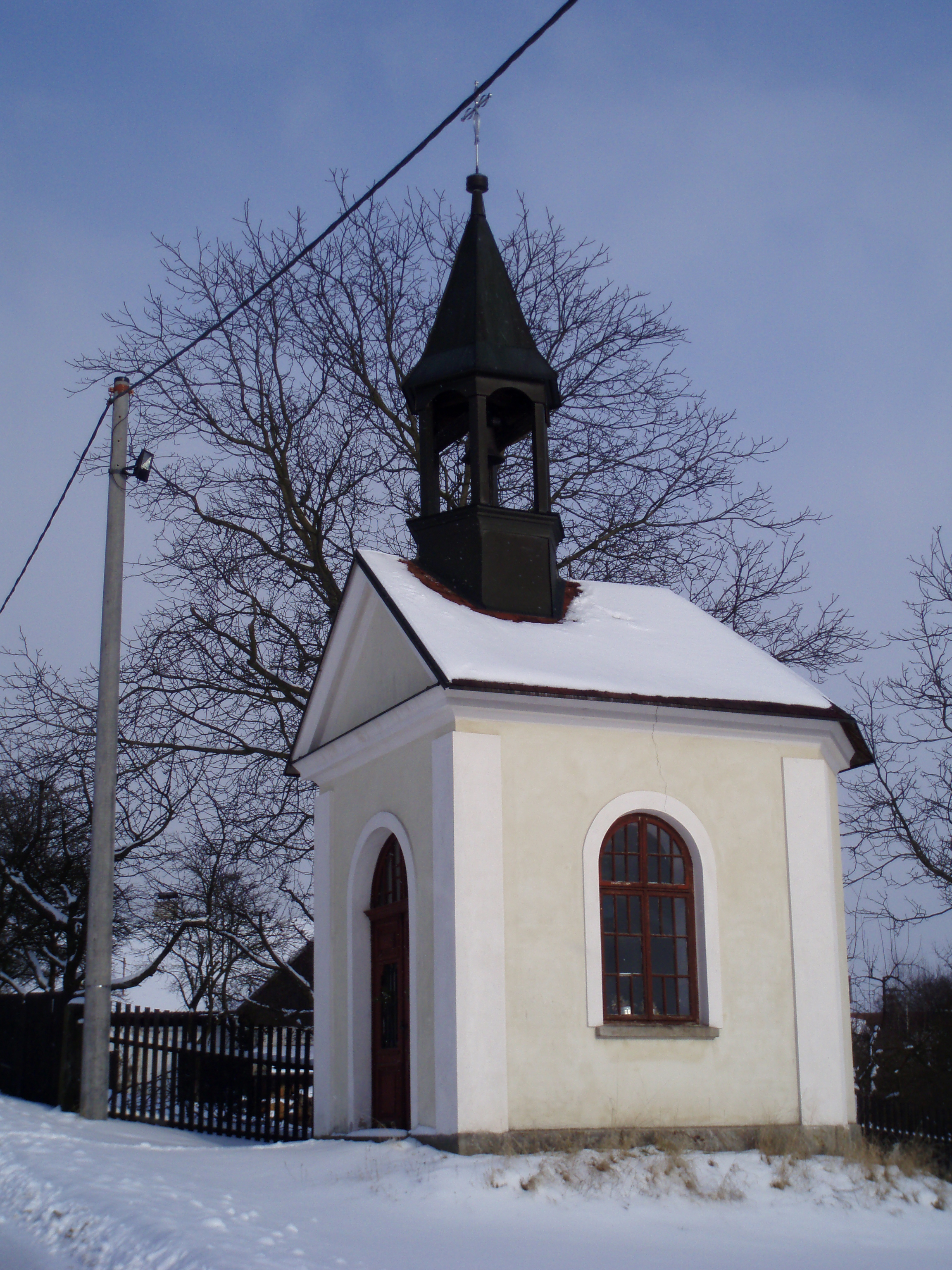 Chapel in Mečov (Hořičky, Czech Republic)